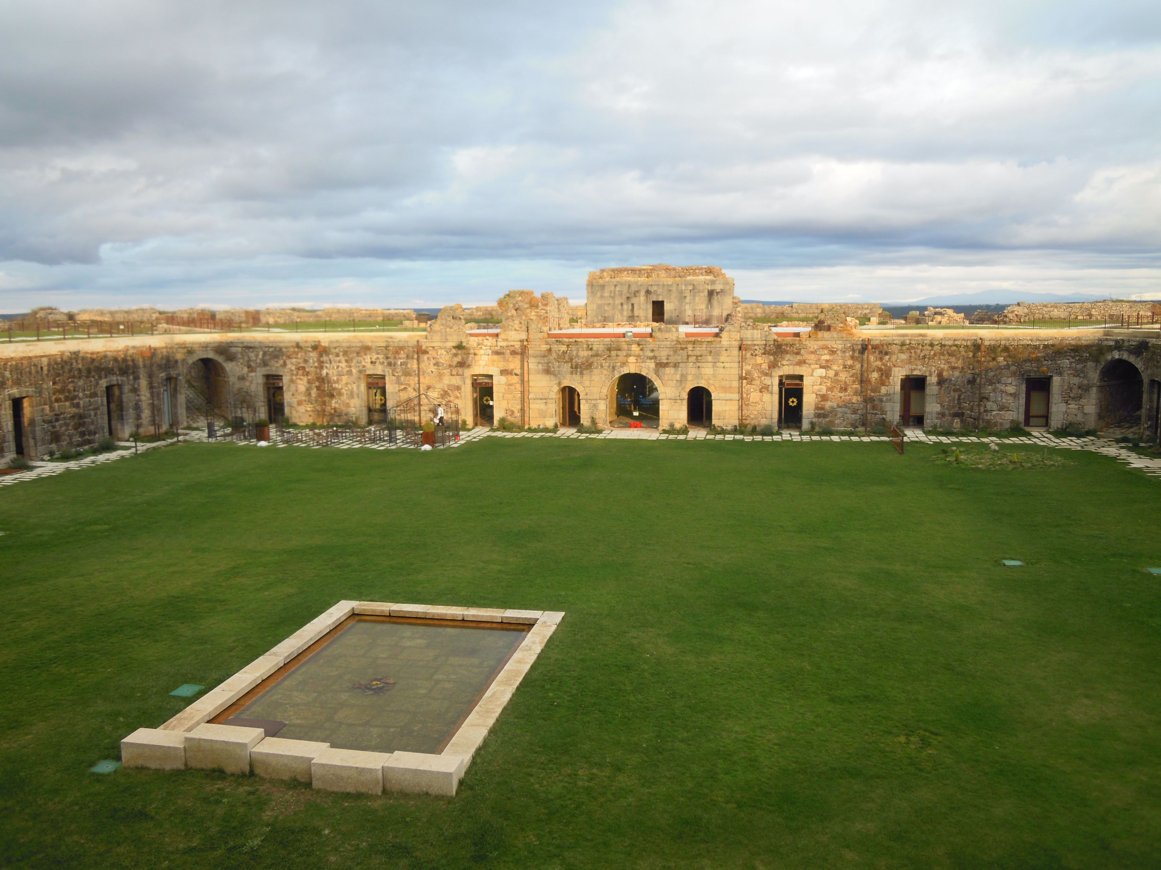 Looking at the eastern elevation and first floor terreplein inside of the Royal Fortress of the Concepcion. The fort is located west of the village of Aldea del Obispo Province of Salamanca, Spain.